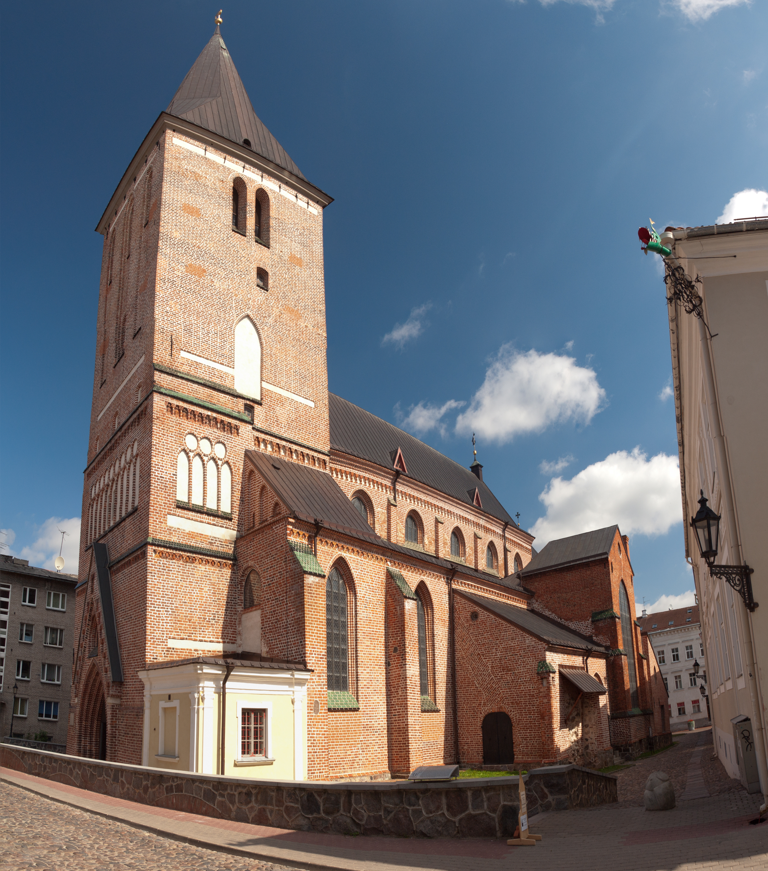 St. Kohn, Tartu